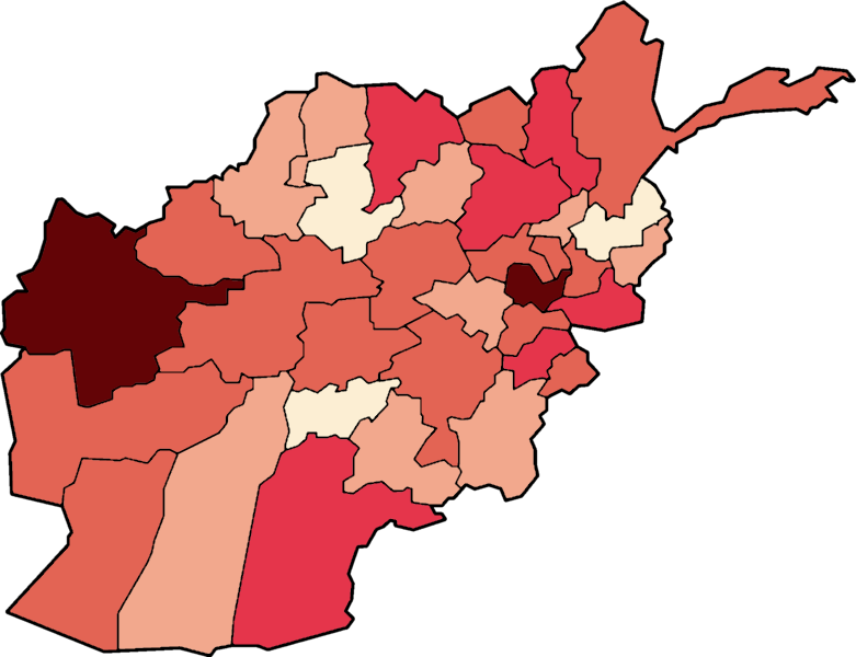 Map of the COVID-19 outbreak in Afghanistan as of 26 August 2020. Be aware that since this is a rapidly evolving situation, new cases may not be immediately represented visually. Refer to the primary article 2020 coronavirus outbreak in Afghanistan for most recent reported case information Confirmed 0 Confirmed 1–99 Confirmed 100–499 Confirmed 500–999 Confirmed 1000–4999 Confirmed ≥5000 Confirmed cases reported Badakhshan Badghis Baghlan Balkh Bamyan Daykundi Farah Faryab Ghazni Ghor Herat Jowzjan Kabul Kandahar Kapisa Kunduz Logar Nangarhar Nimruz Paktia Paktika Panjshir Parwan Samangan Sar-e Pol Takhar Wardak Zabul Suspected cases reported None